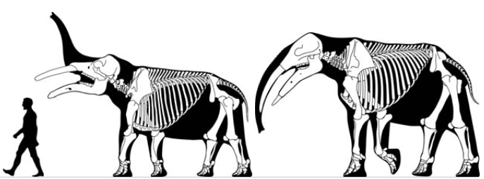 G. productum DMNH 1261 (left) age 35 femur 1022 sex male humerus 772* size group – pelvis 1465 251 cm • 4.6 t G. steinheimense Mühldorf (right) sex male age 37 size group – femur 1230 pelvis 1550 humerus 1010 317 cm • 6.7 t All the skeletal restorations are presented on the same scale (1/100). The human figure is 180 cm tall. Mass estimates are in kilograms for small proboscideans and in tonnes for the larger forms. Shoulder heights are in cm. The age (years), sex, size group, femur and humerus greatest length (mm) (in the case of * it refers to the humerus articular length in mm) and pelvis breadth (mm) are included.